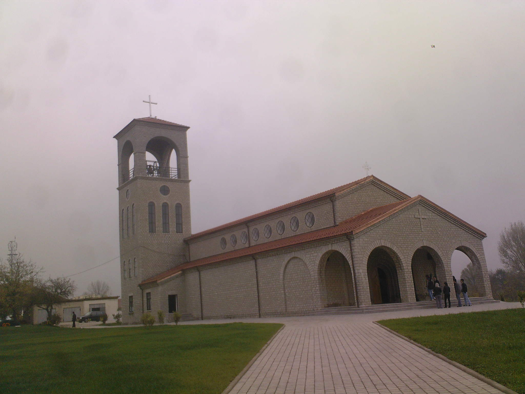 the image is originally taken from Viktor Spaqi